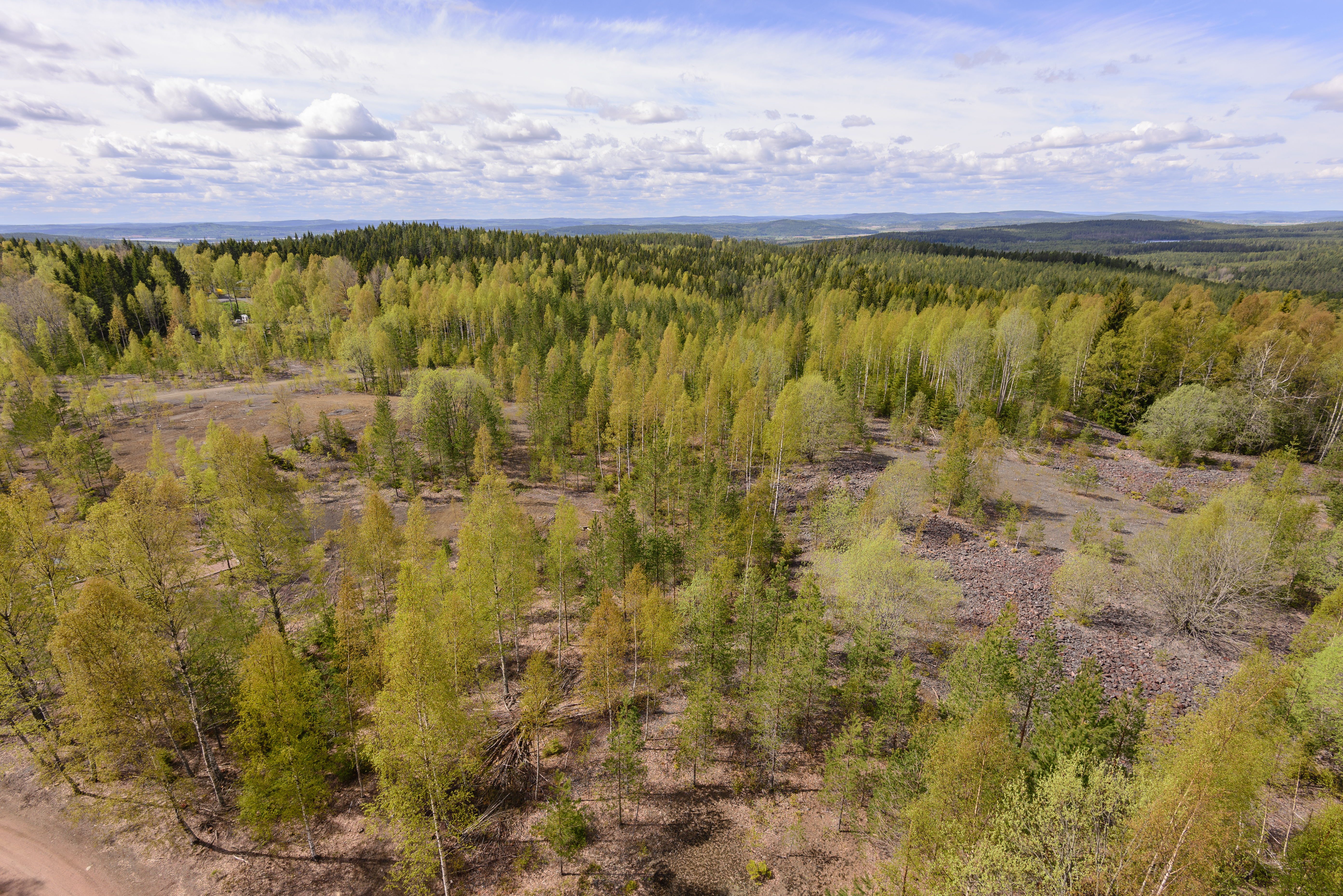 View from the roof of the historic headframe in Intrånget towards the former mine site and surrounding areas Intrånget is a mining villages in Hedemora Municipality, Dalarna County, Sweden. The iron mine was closed in 1969.